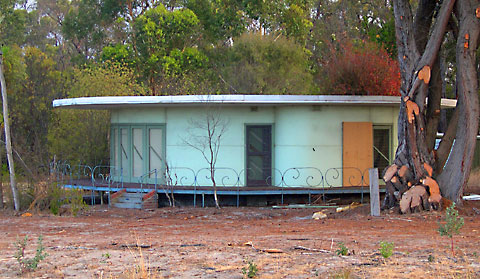 Unique and historic round-house, Mount Barker, Western Australia. The photo shows the house in a state of disrepair. For a number of years the structure was barely visible to passers-by but the removal of trees and shrubs in late 2006, in preparation for major roadworks, exposed it again.